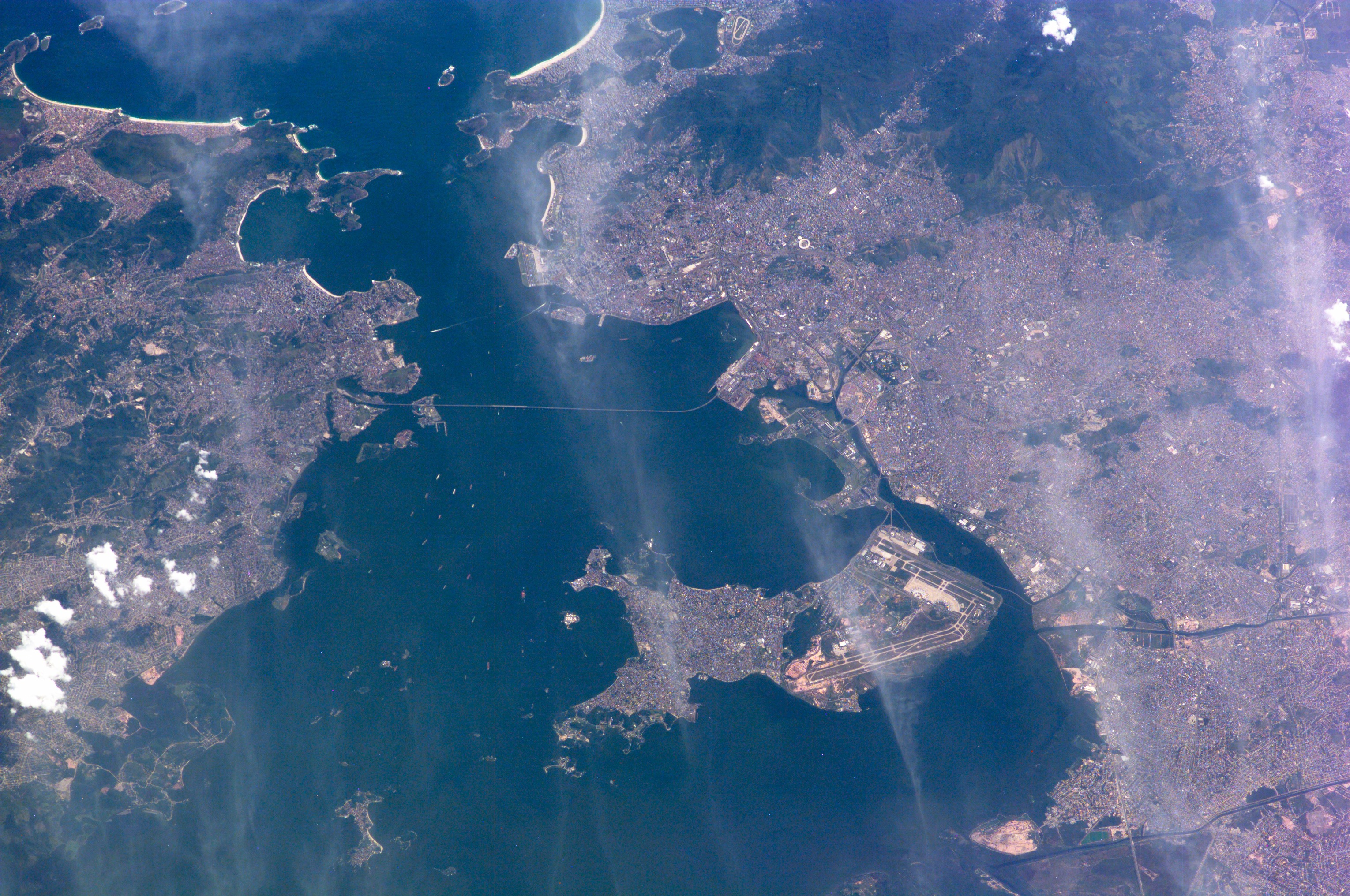 Image Science and Analysis Laboratory, NASA-Johnson Space Center. 25 Mar. 2005. "Astronaut Photography of Earth - Display Record."